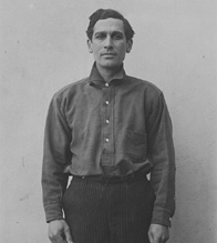 Public domain image of American silent actor George Fields in the 1910s.